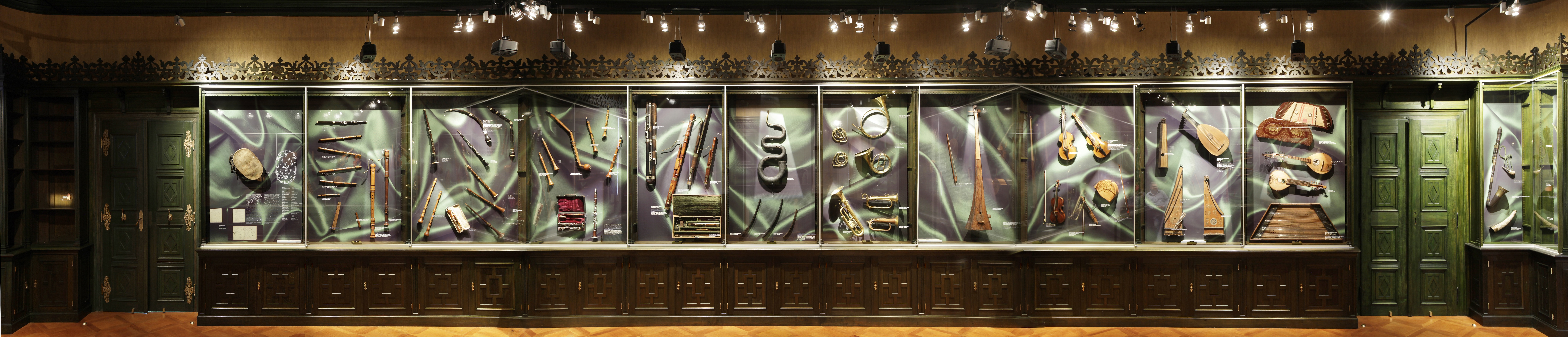 The Green Library Exhibition presents more than half of the collection of historic musical instruments at the Meiningen Museums. During the Second World War, the precious Ducal private library was lost, resulting in the library furnishings losing their purpose by being hidden away in the castle’s archives and attic for 40 years. However, the room that was decorated by Duke Georg II in 1896 has been restored to its former glory. The striking ensemble featuring a decorated ceiling, bookcases measuring 3 meters in height, and elaborate tapestries, can now be viewed as part of the permanent exhibition of the collection of musical instruments. Erwin Stache‘s interactive sound installation allows visitors to musically experience the exhibition.